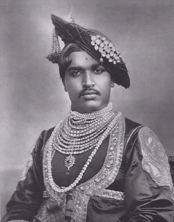 Shahu of Kolhapur